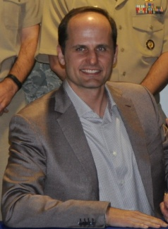 MOUNTAIN VIEW, CA, UNITED STATES Google Senior Vice President of People Operations Laszlo Bock